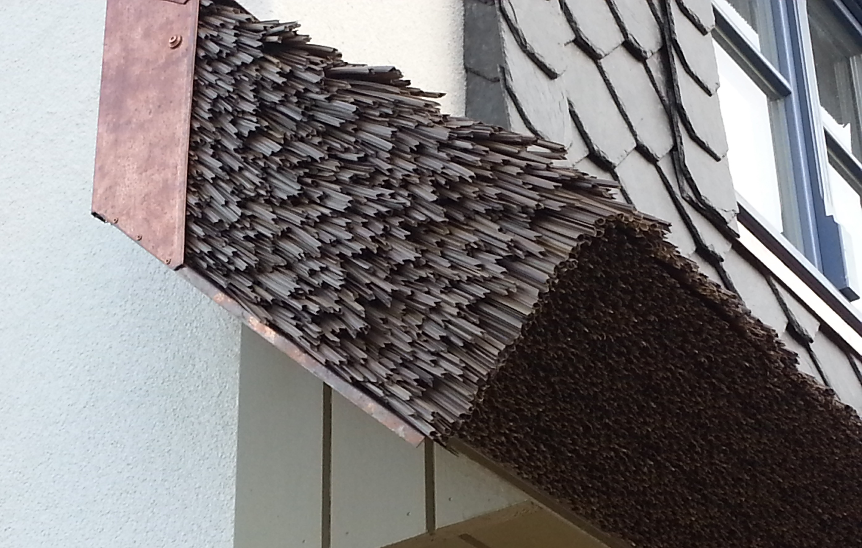 Shingles on the verge